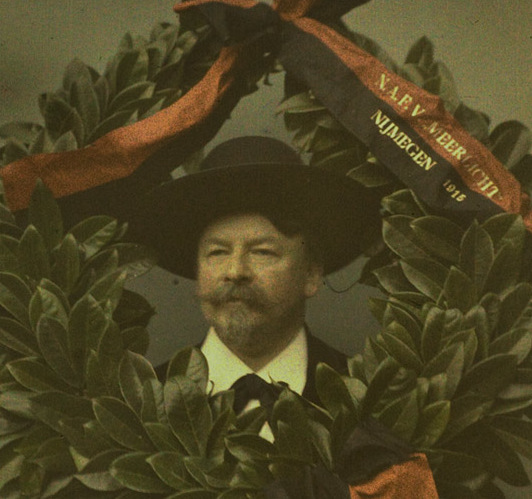 Alfonse Van Besten, Homage to Van Besten at Nijmegen, c. 1915